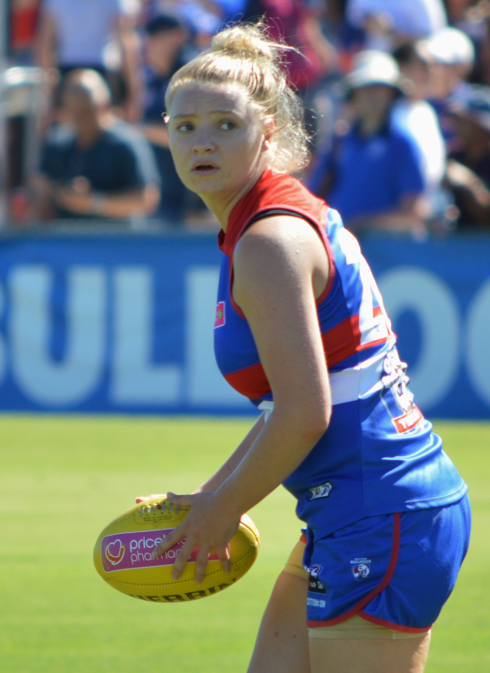 Daria Bannister during the round 1 2018, AFL Women's match between the Western Bulldogs and Fremantle.